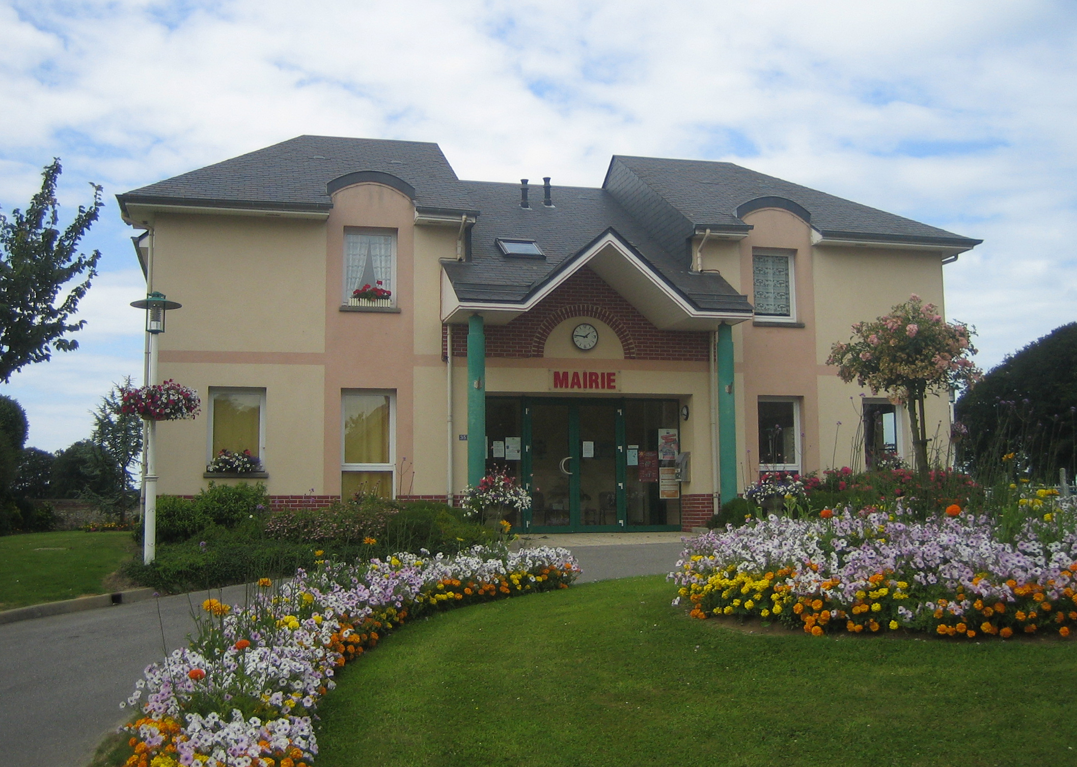 Maniquerville, Mairie